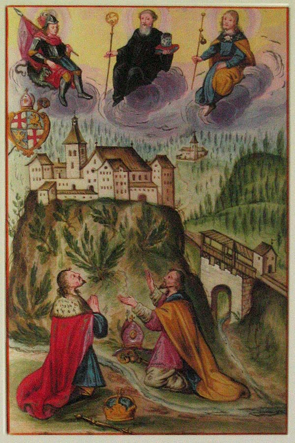 Holy Roman Emperor Henry IV. and Reginbert, Bishop of Brixen, praying at the foot of the Georgenberg. In the upper part, SS George, Benedict and James. Henry was an early donator to St. Georgenberg monastery (in 1097) which was turned into a benedictine abbey by Reginbert before or, at the latest, in 1138. So, the two never met in reality. As the 'parchment codex' also refers to an event of 1689, it was created later than that, but before 1704. It quite precisely depicts the monastery buildings of that period.